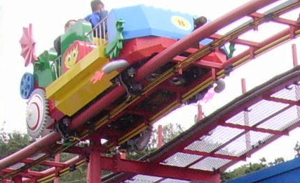 Tret-o-Mobil at Legoland Deutschland (Germany).